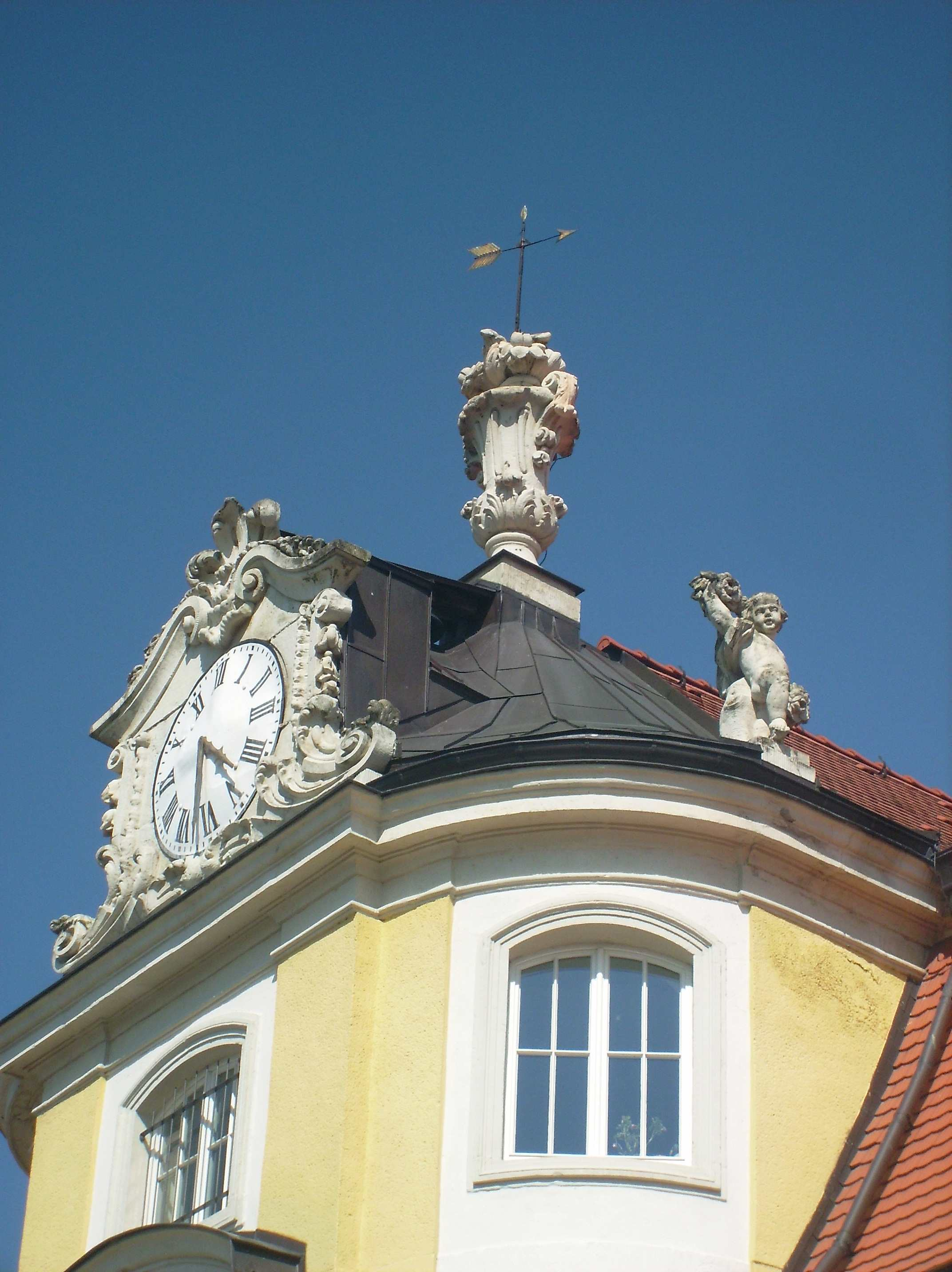 Detail of the late baroque castle of Choren (Mochau, Mittelsachsen district, Saxony)